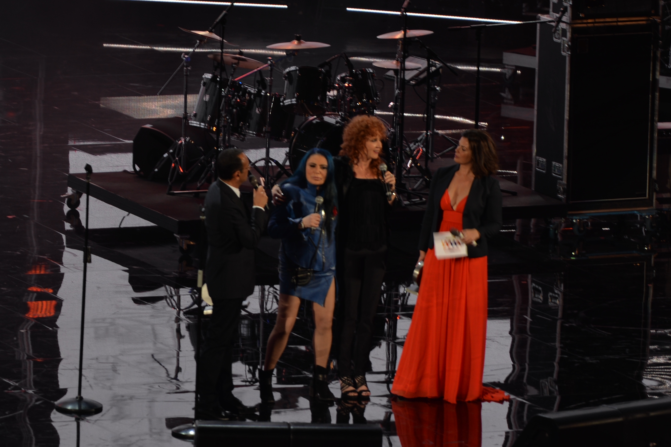 Loredana Bertè and Fiorella Mannoia during the Wind Music Awards 2016 ceremony at Verona Arena